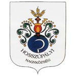 Coat of arms of Hosszúpályi, Hungary